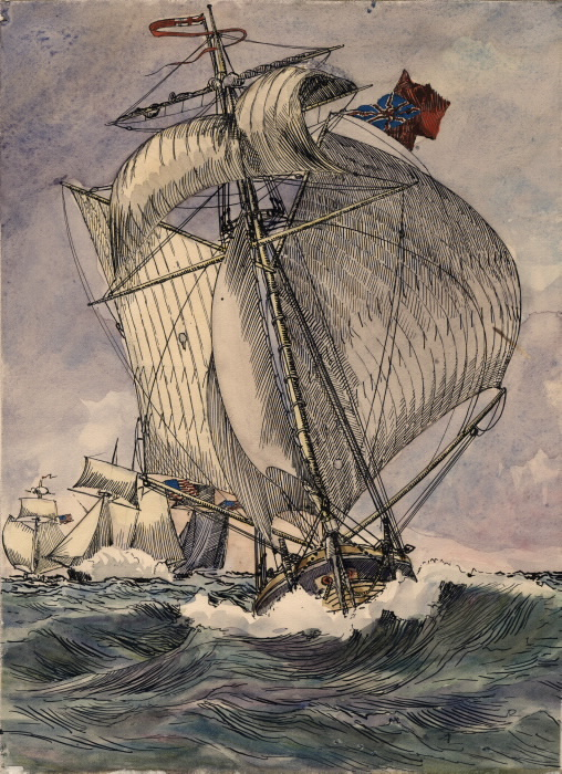 A watercolour of the "Governor Simcoe". Pen & ink over pencil, with traces of ruled border in pencil, coloured with watercolour and touches of gouache.The Governor Simcoe was intercepted by the Americans off Kingston (Ontario) on November 10, 1812. The small schooner escaped over the Seven Acre Shoal through which the Americans vessels were too deep to follow.